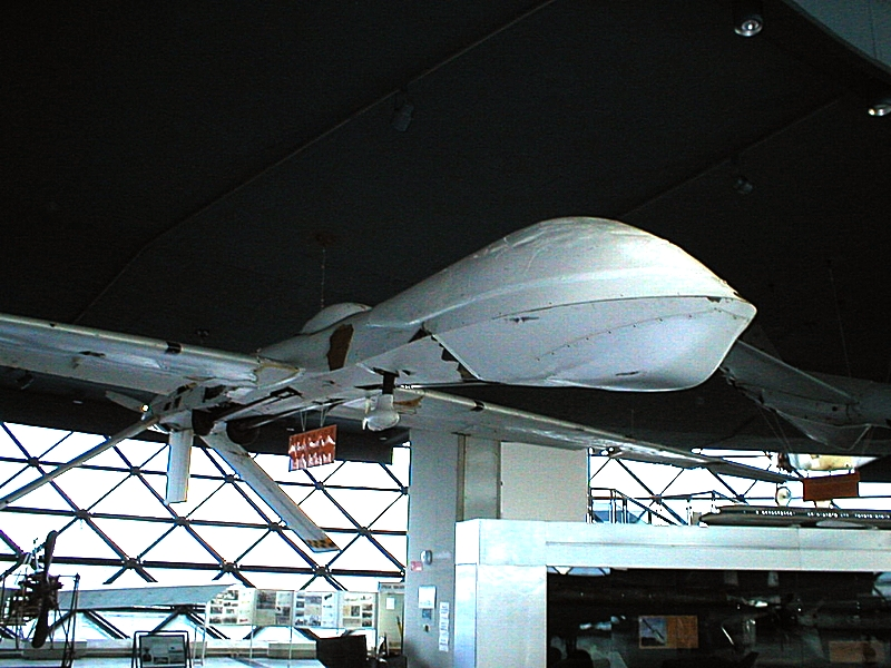 An USAF General Atomics MQ-1 Predator drone in the Belgrade Aviation Museum. Shot down during NATO airstrikes on Serbia in 1999.